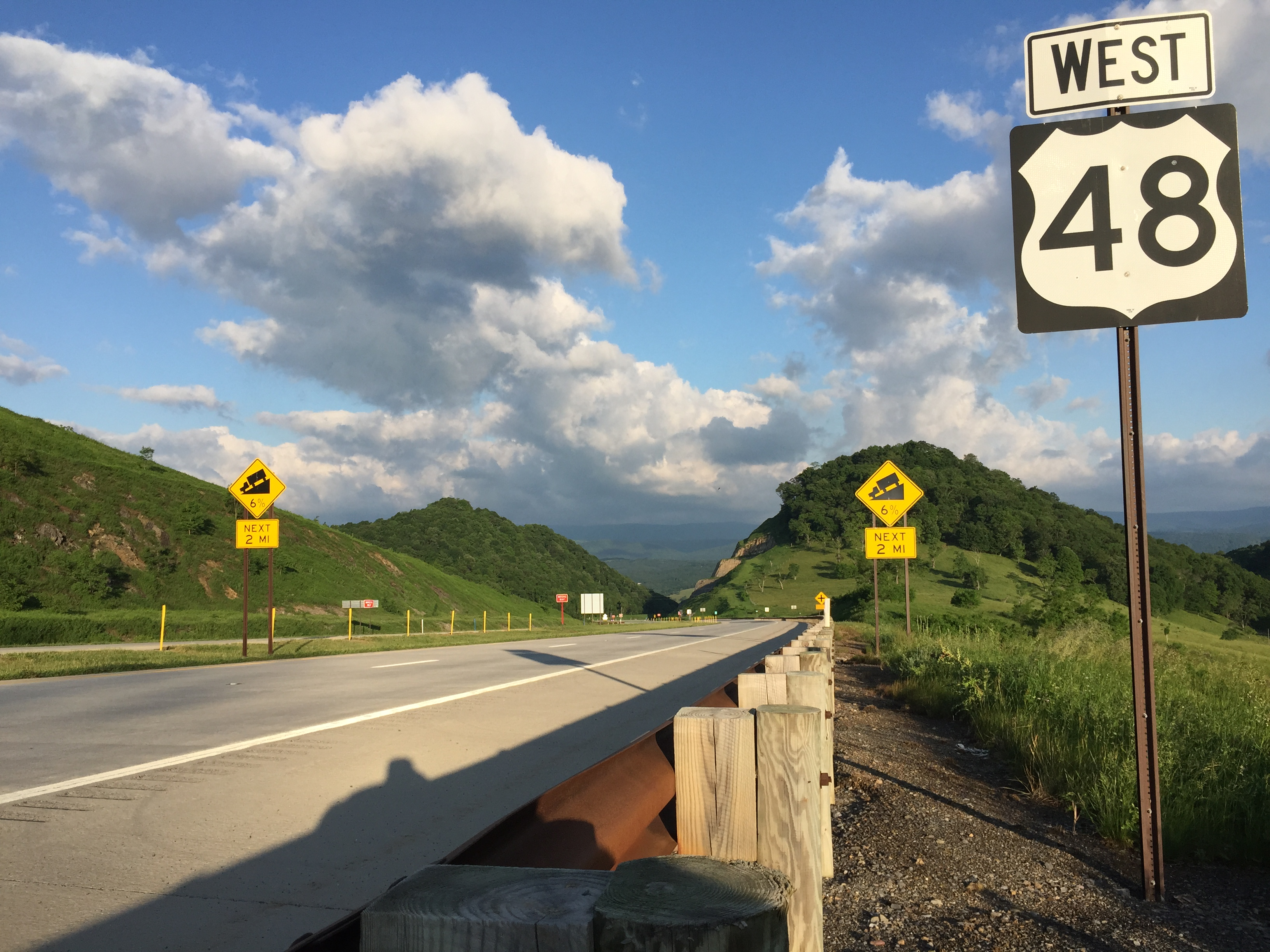 View west along U.S. Route 48 (Corridor H) east of Forman in Grant County, West Virginia